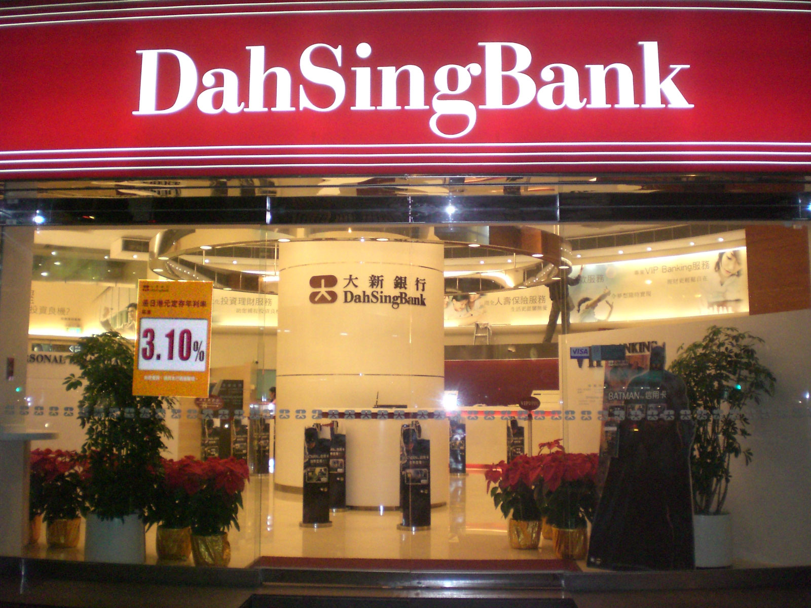 中環畢打街大新銀行分行